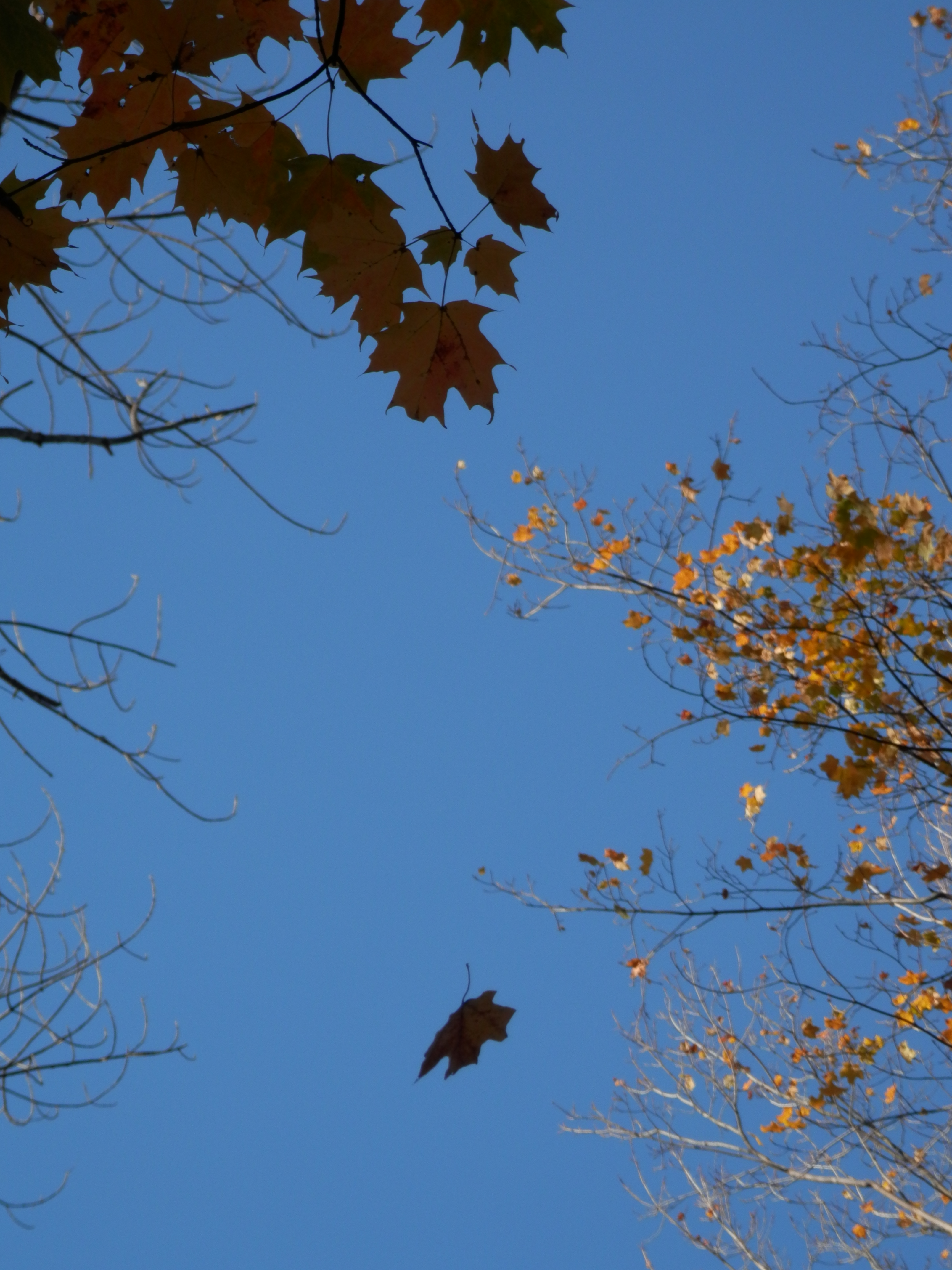 Falling Leaf in Guelph, Ontario, Canada.